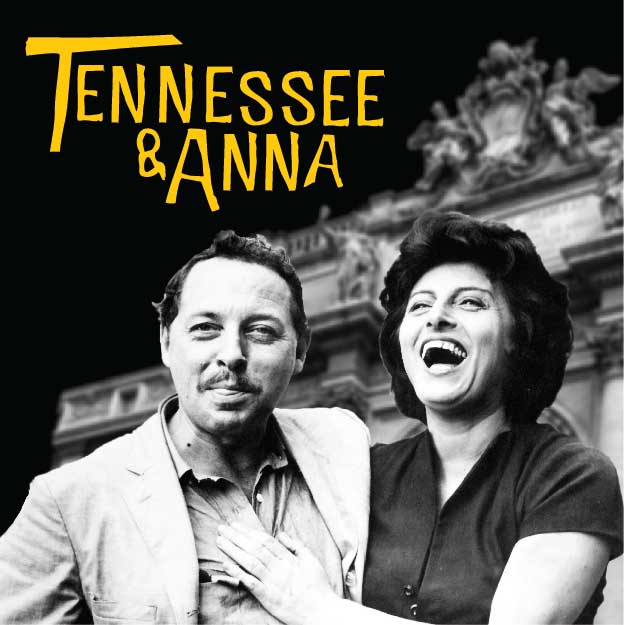 For the play Tennessee & Anna, by Jeffry A DeCola.